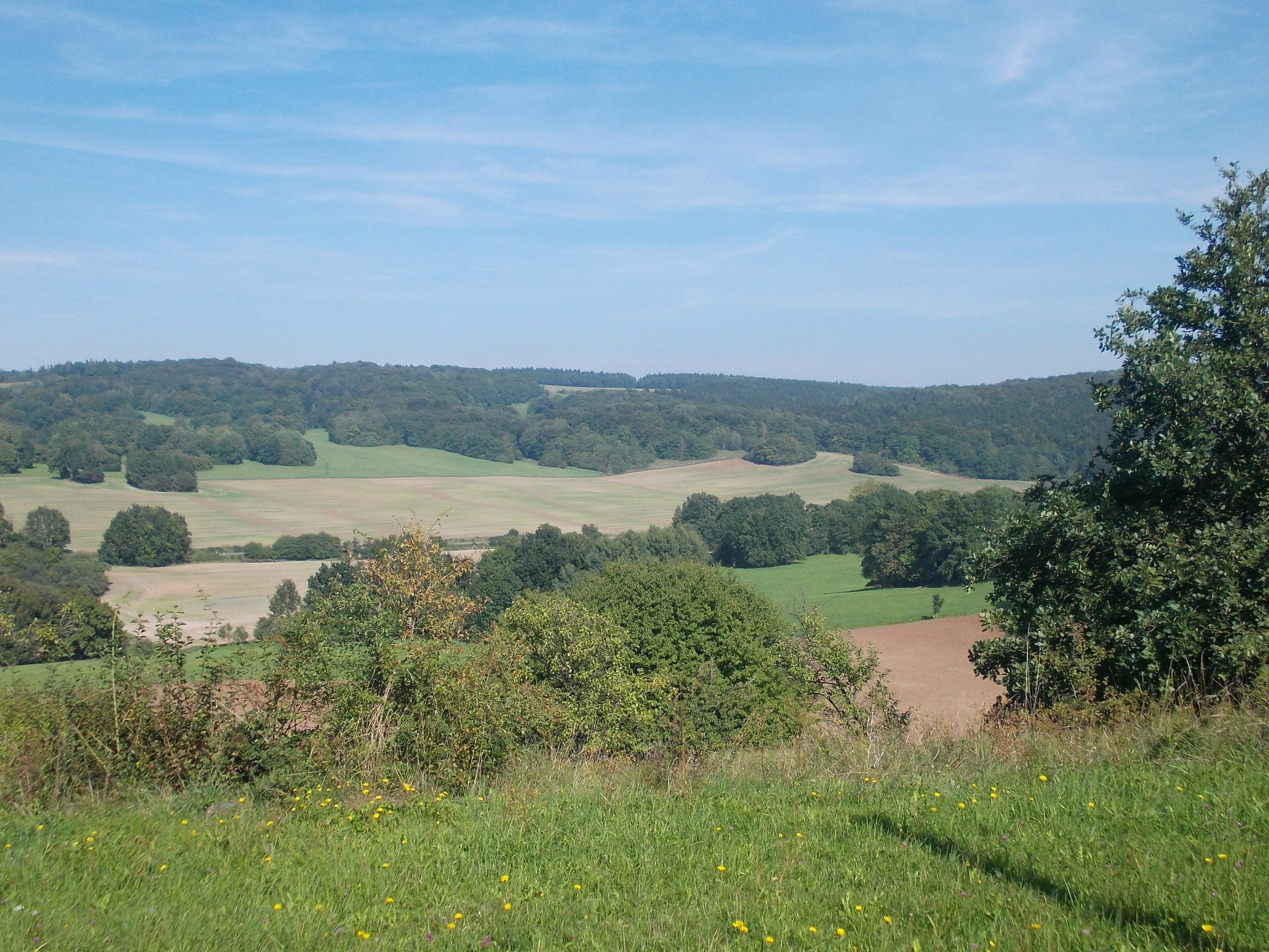 Landscape to the east of Pölsfeld (Allstedt, Mansfeld-Südharz district, Saxony-Anhalt)